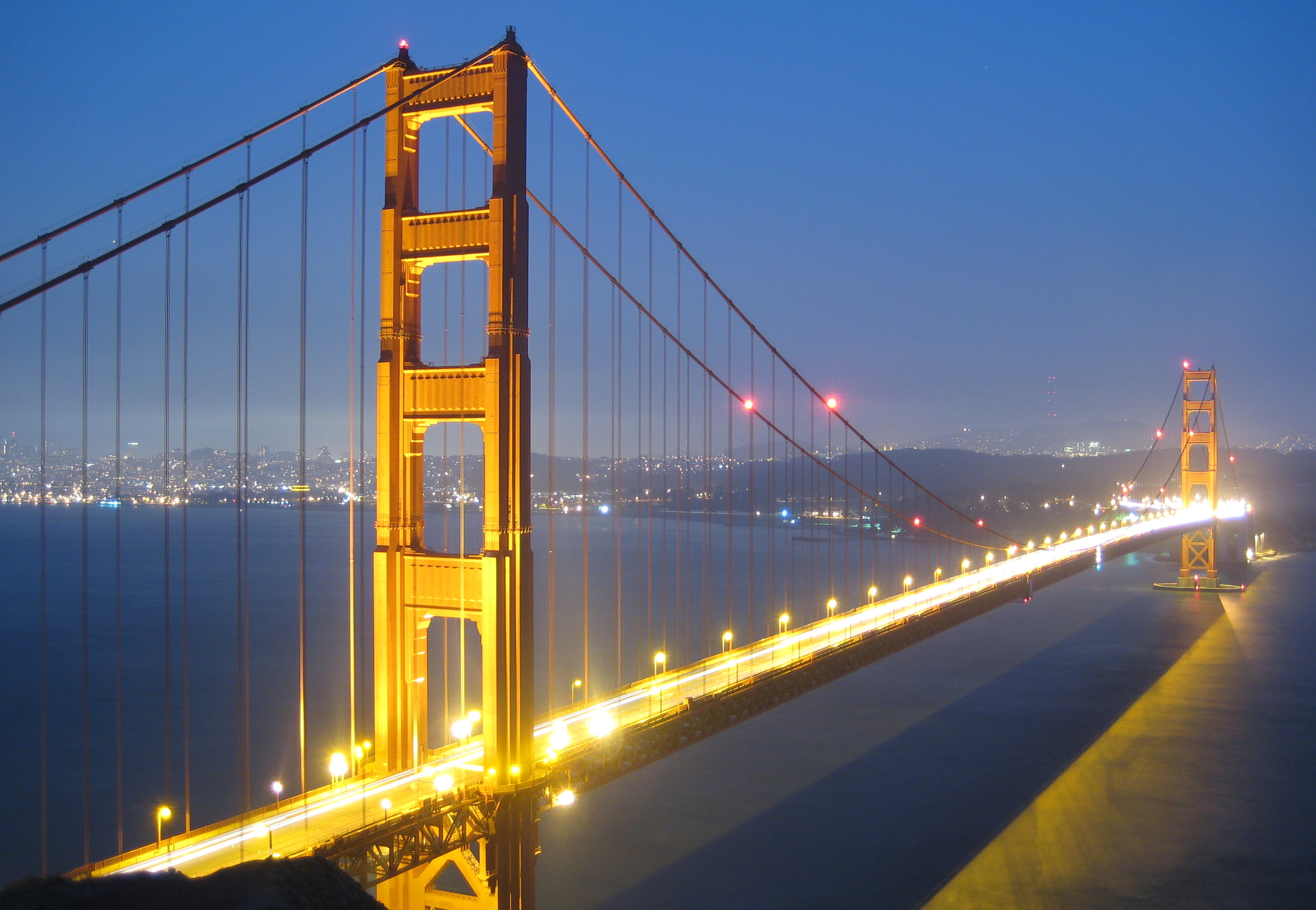 Golden Gate Bridge at Night. San Francisco, CA, USA.